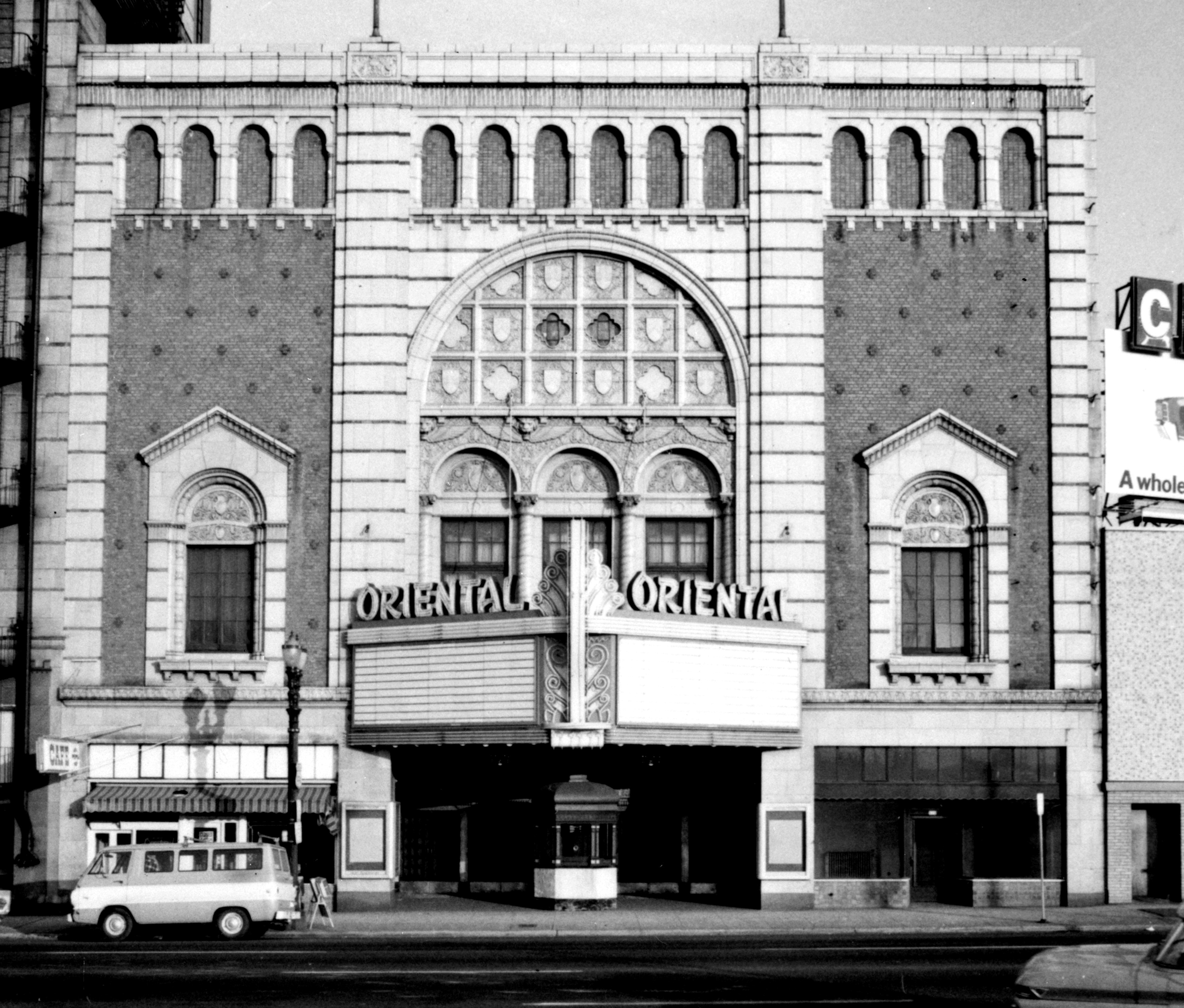 Oriental Theatre facade and marquee. A movie palace-cinema formerly in Portland, Oregon — built in 1927 and demolished in 1970. 1969 photograph from the HABS—Historic American Buildings Survey images of Oregon. Credits File caption: 2. Historic American Buildings Survey, Lyle E. Winkle, Photographer November 11, 1969 WEST ELEVATION. HABS ORE,26-PORT,3-2